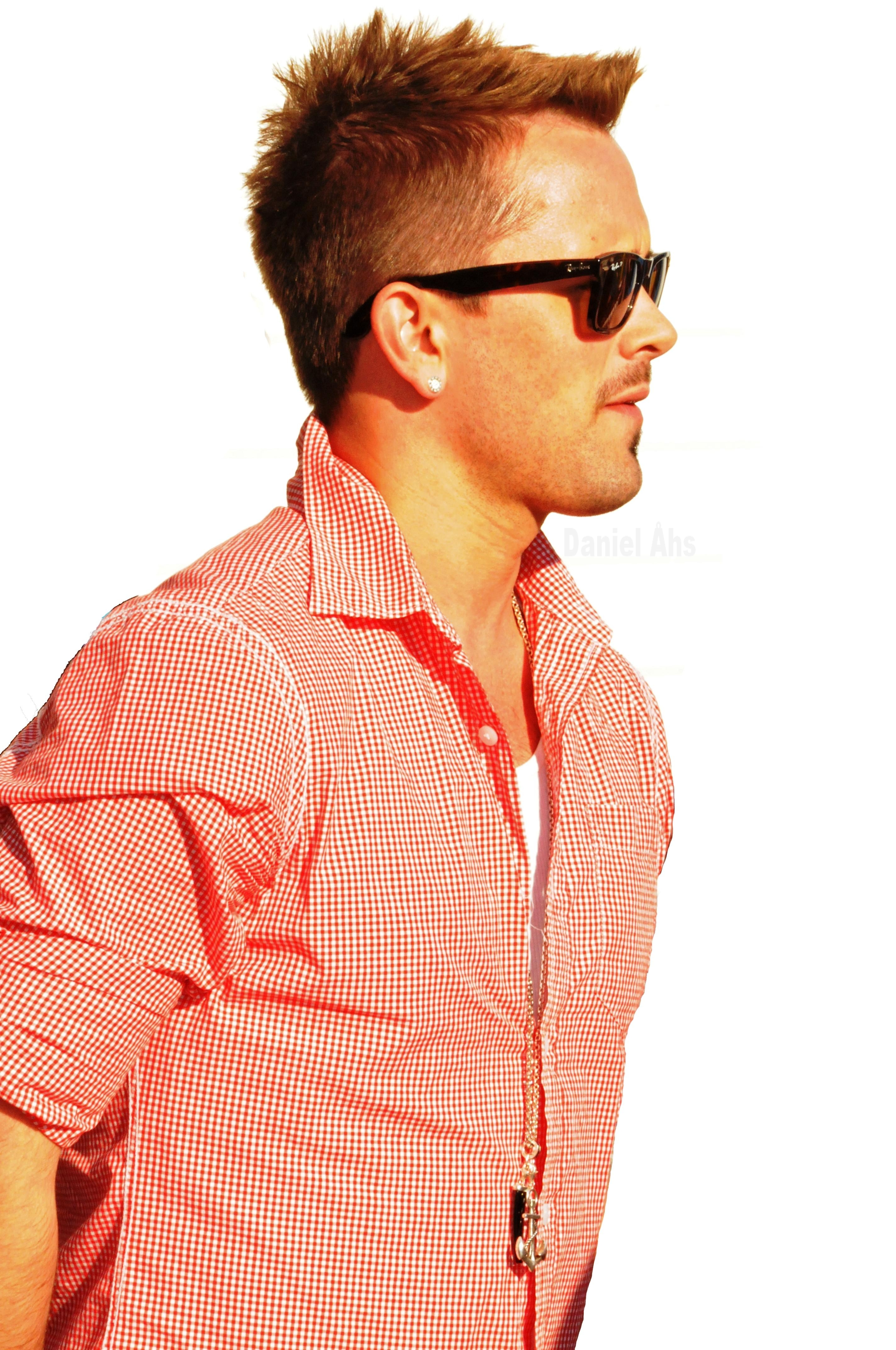 Erik Segerstedt at Media Markt in Norrköping